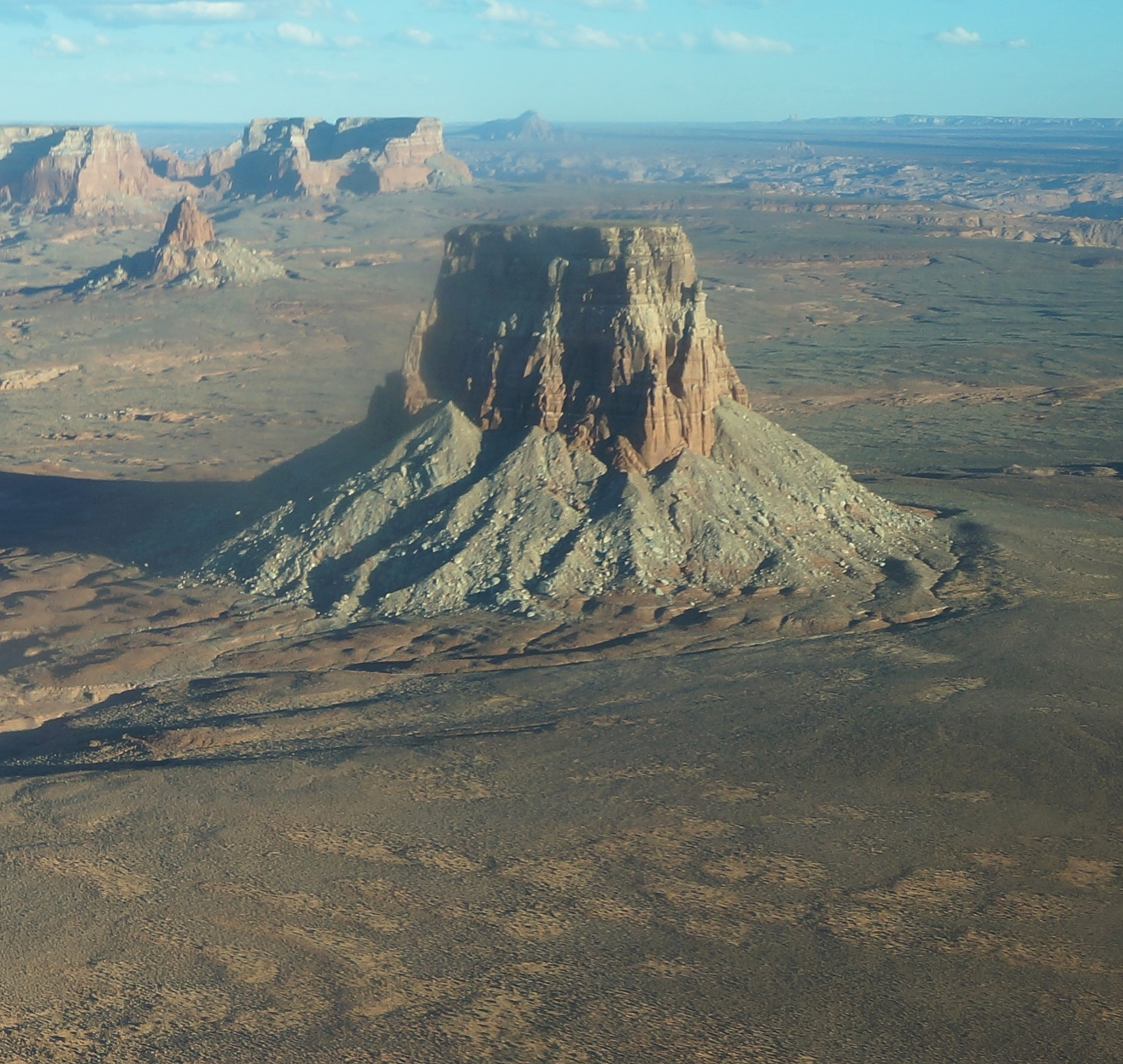 Rising to over 1500 meters above sea level, Tower Butte is a unique rock formation in the world Lake Powell.- Aerial view on Tower Butte' in Arizona, USA